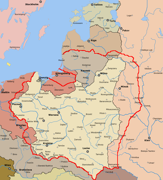 Dmowski's Line (borders of Poland proposed during the Paris Peace Conference)